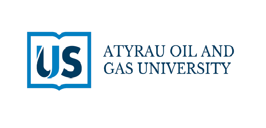 Logo AOGU